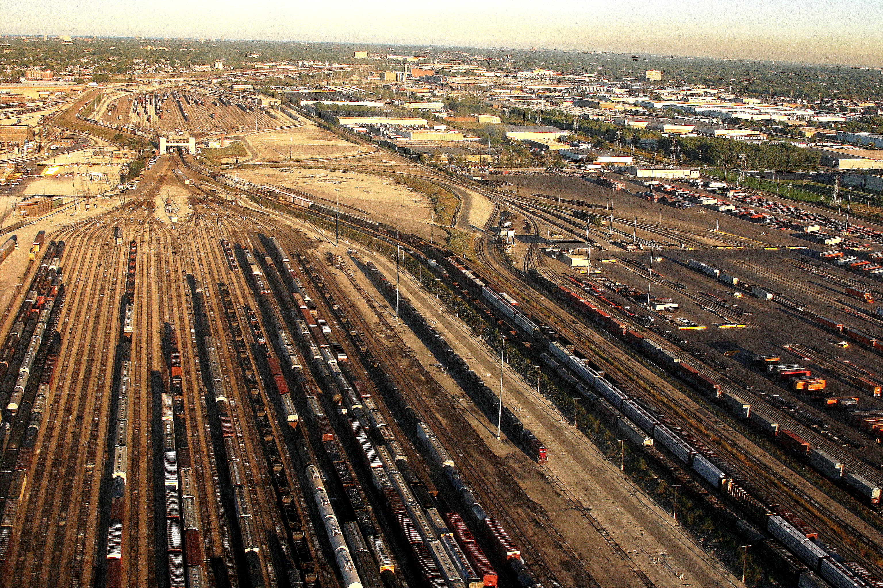 Bedford Park section of Chicago near Midway Airport